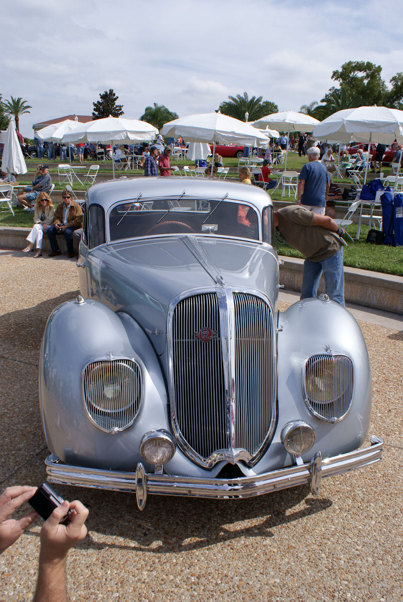 1938 Panhard & Levassor Dynamic 140, Sleeve valve 2861cc six cylinder engine, center steering, independent front suspension, streamlined styling, and Three-piece "Panoramique" windshield. This is not a custom-built automobile. SONY DSC